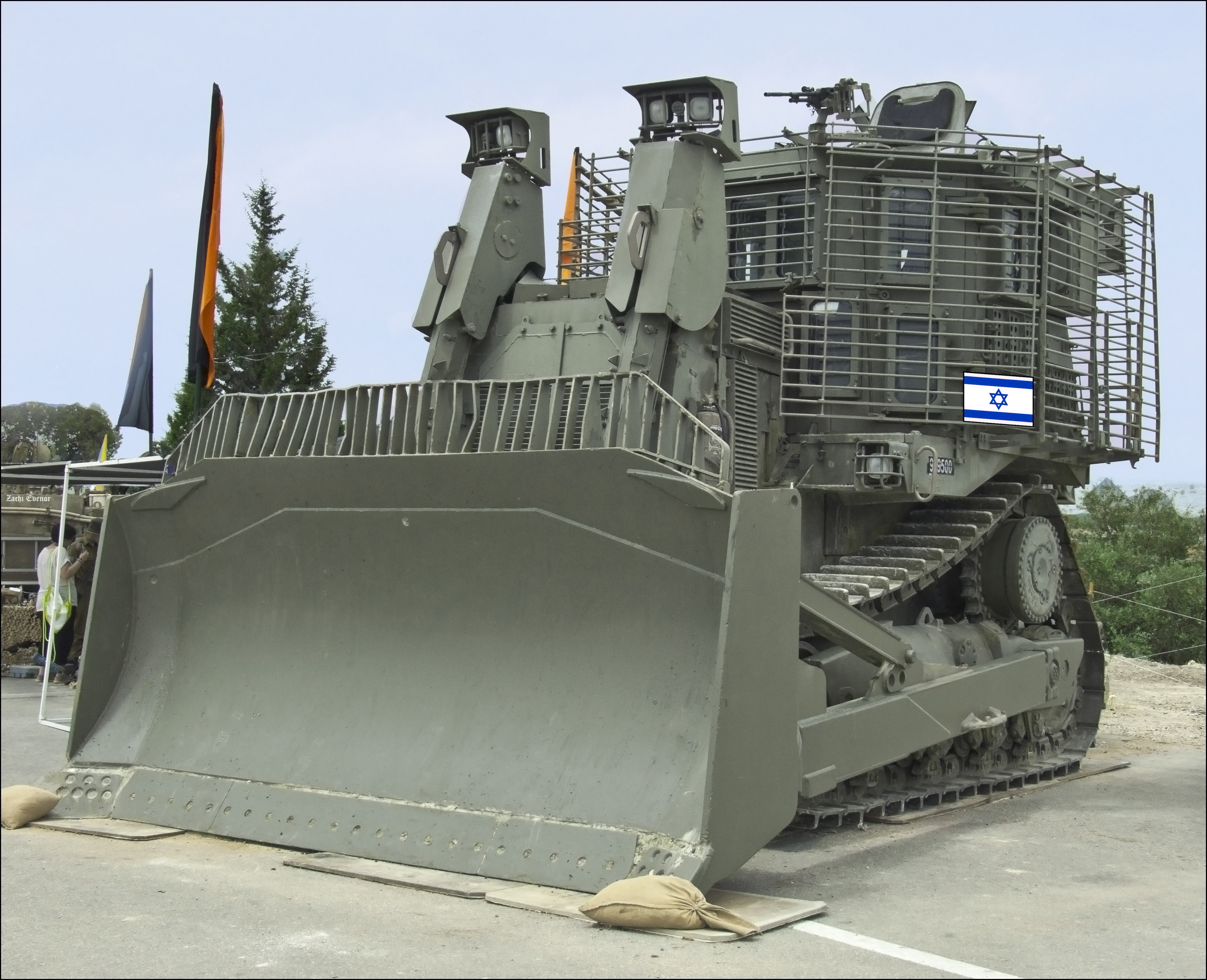 IDF Caterpillar D9 armored bulldozer, Israel's 66th Yom Ha'atzmaut (Independence Day), Yad LaShiryon, Latrun, Israel